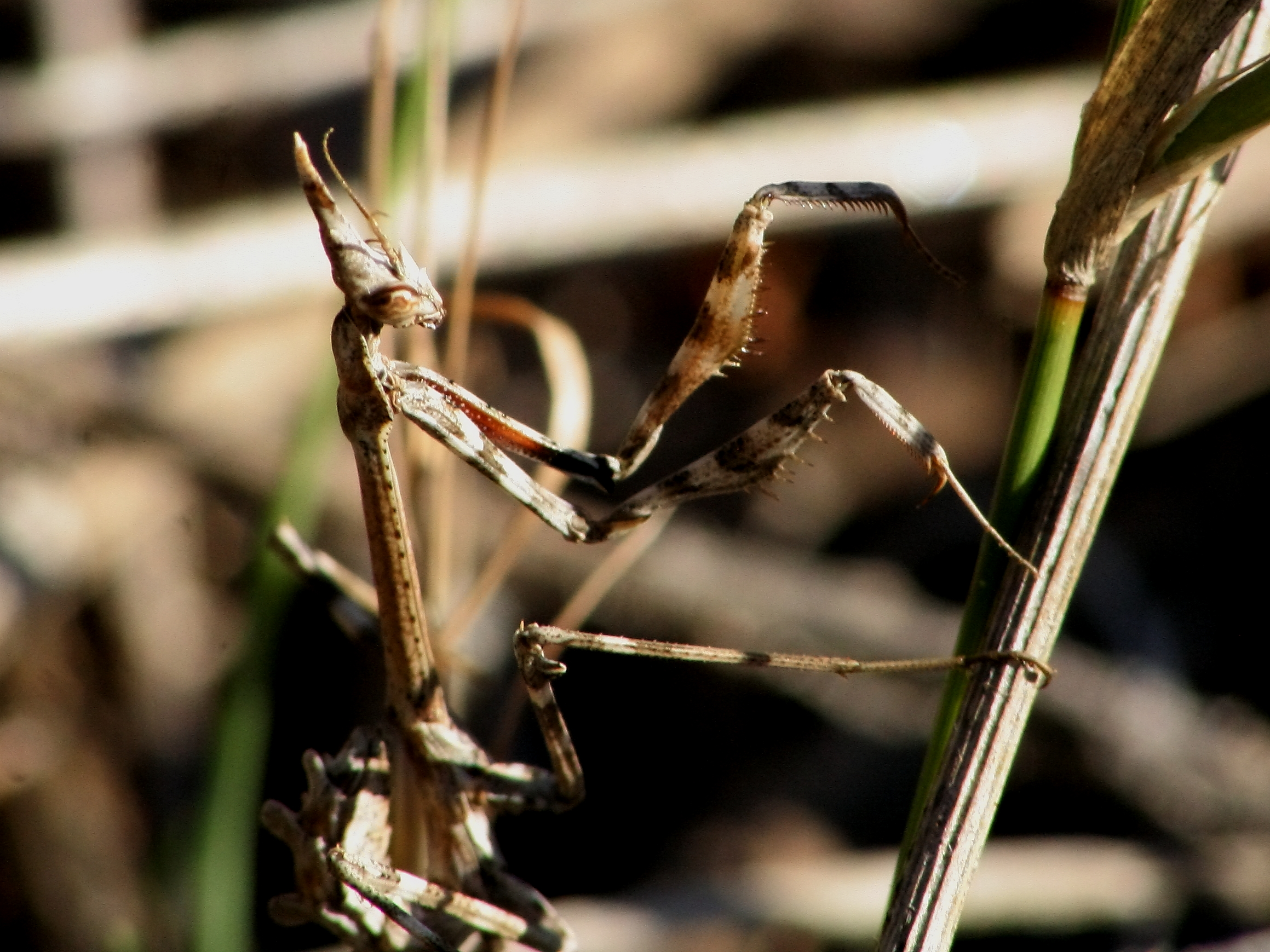 Conehead mantis